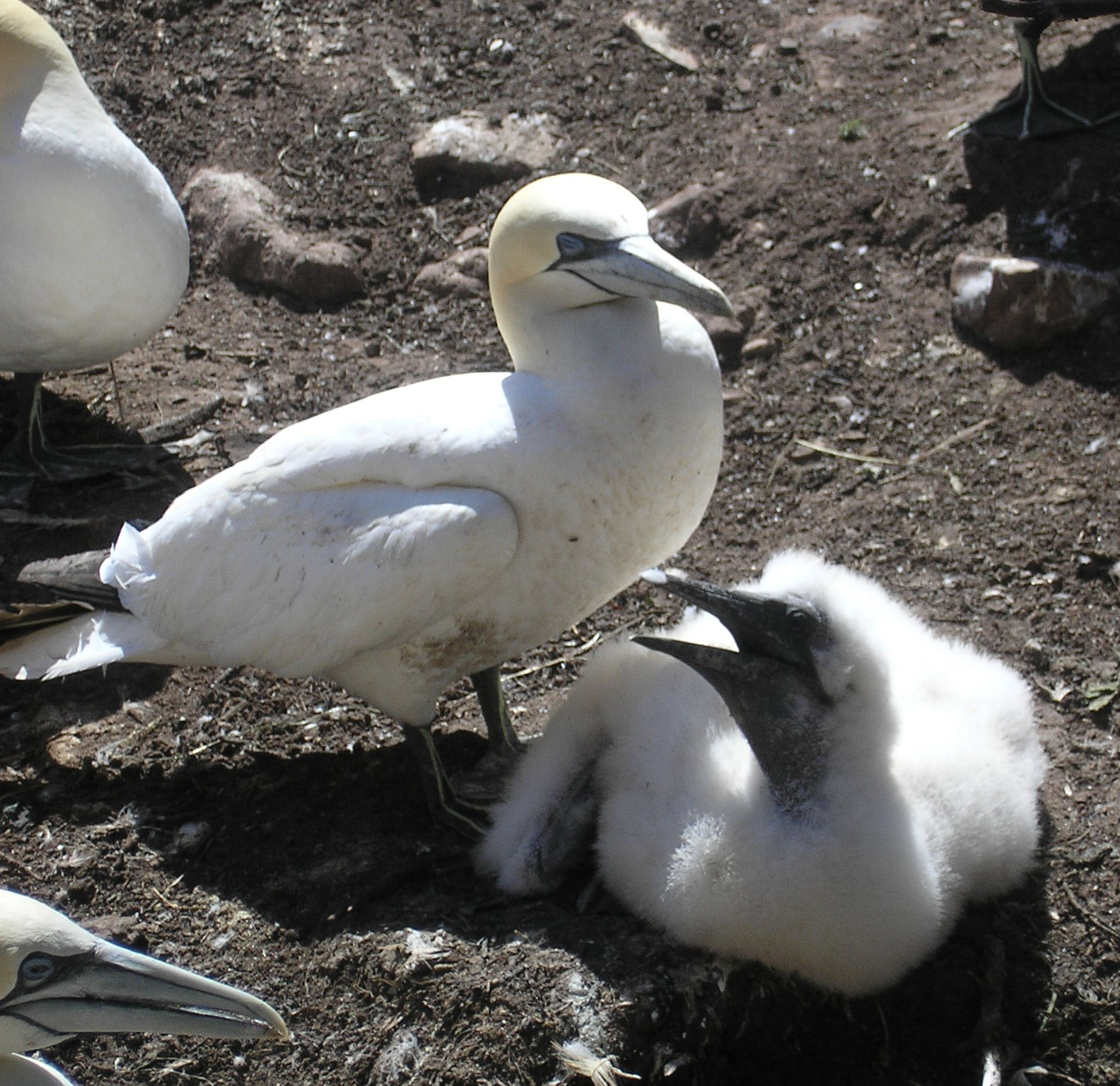 Northern Gannets on Bonaventure Island in Gaspésie (Canada).